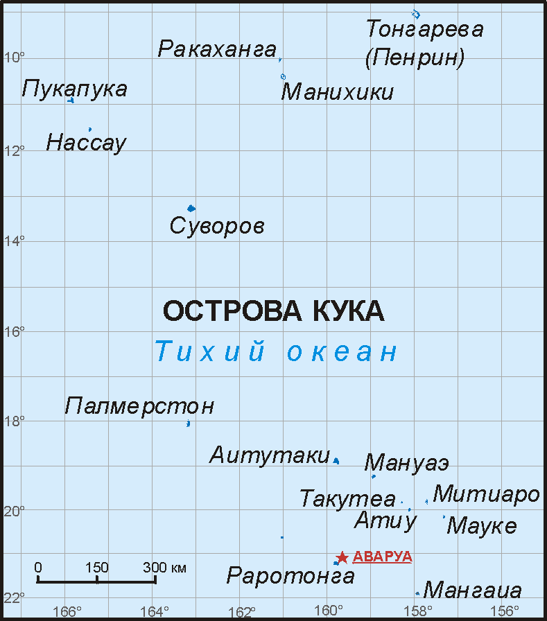 Map of the Cook Islands